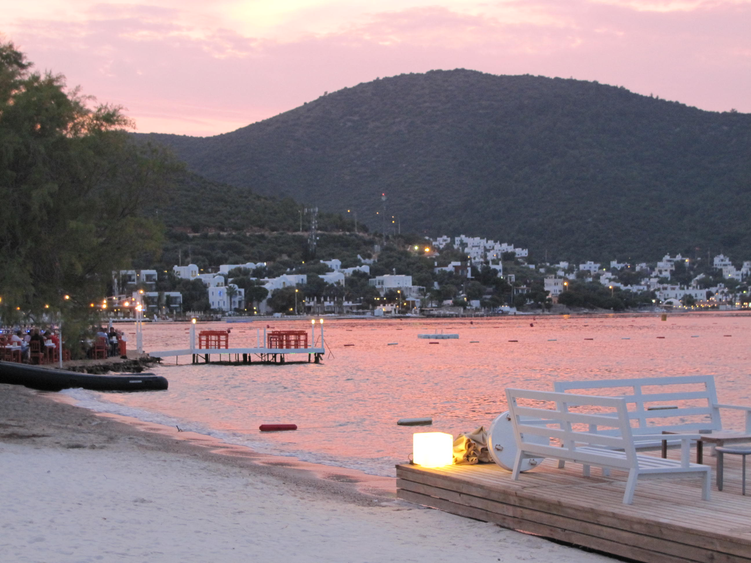 Foreshore restaurants and cafes